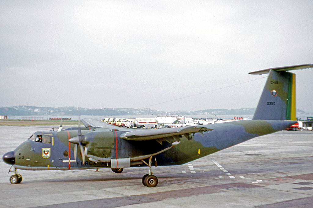 De Havilland Canada DHC.5 Buffalo 2350 of the Brazilian Air Force at Rio in 1972